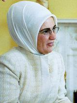 Emine Erdoğan, the wife of Prime Minister Recep Tayyip Erdogan.